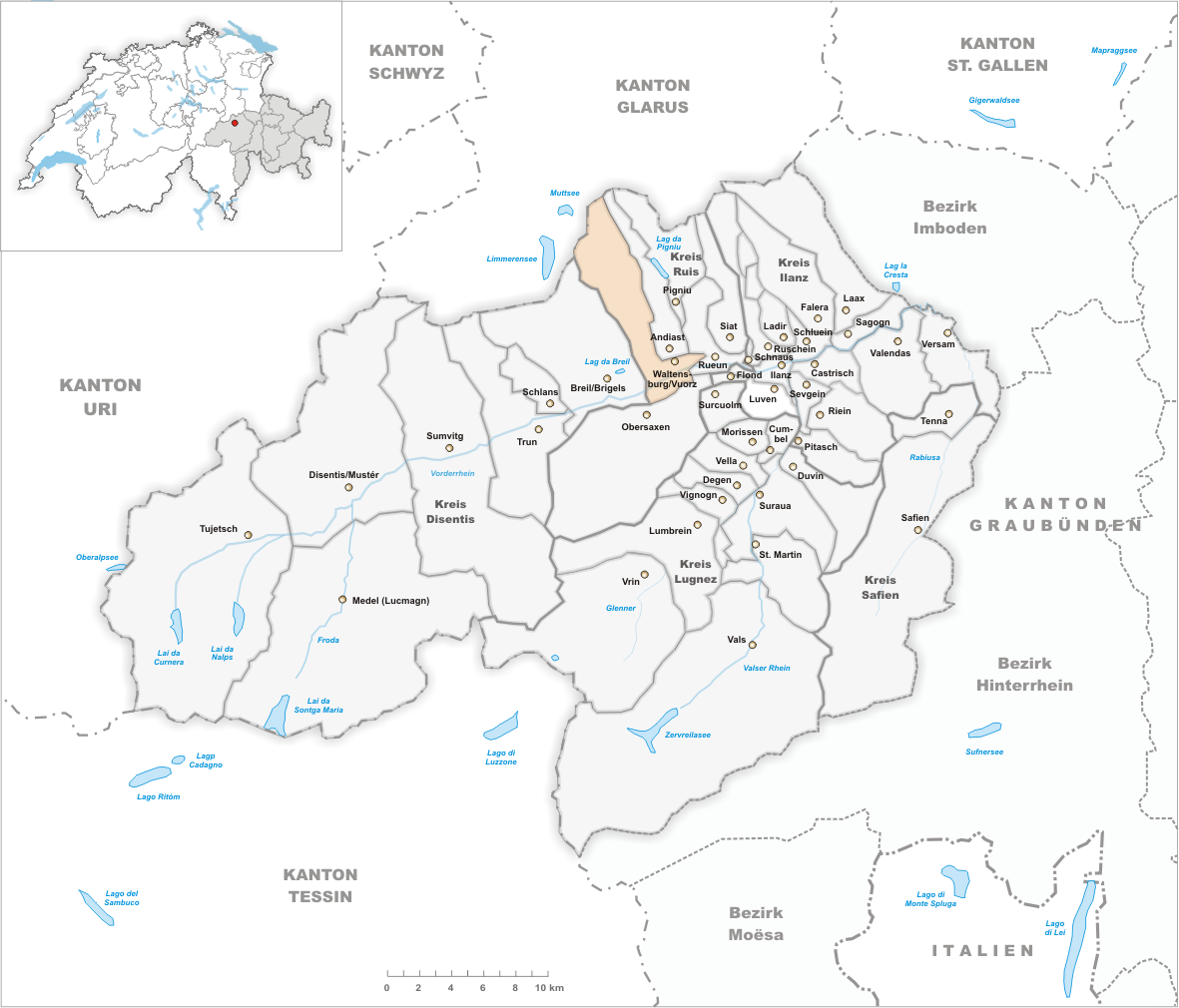 Municipality Waltensburg/Vuorz